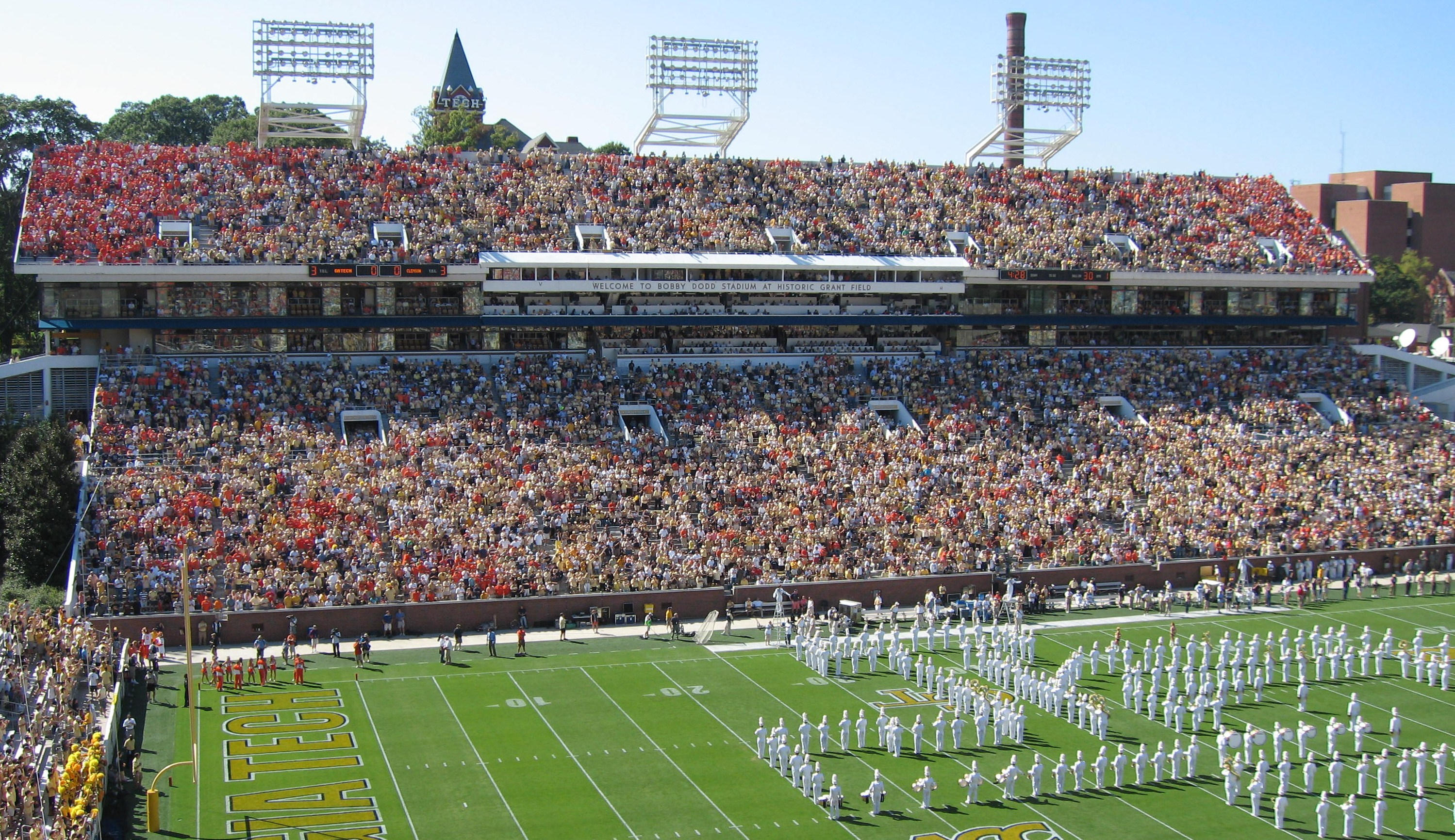 Author is uploader. Taken in Atlanta, Georgia Taken with a Canon PowerShot SD500 Taken on September 29, 2007 005 sec (1/200) Aperture: f/7.1 Focal Length: 7.7 mm Exposure Bias: 0/3 EV Flash: Flash did not fire, auto mode Orientation: Horizontal (normal) X-Resolution: 1/96 dpi Y-Resolution: 1/96 dpi Software: Microsoft Windows Photo Gallery 6.0.6000.16386 Date and Time: 2007:10:19 03:23:05 YCbCr Positioning: Centered Date and Time (Original): 2007:09:29 15:32:49 Date and Time (Digitized): 2007:09:29 15:32:49 Compressed Bits per Pixel: 2 bits Shutter Speed: 245/32 Maximum Lens Aperture: 95/32 Metering Mode: Pattern Color Space: sRGB Focal Plane X-Resolution: 10816.901 dpi Focal Plane Y-Resolution: 10816.901 dpi Sensing Method: One-chip colour area sensor Digital Zoom Ratio: 3072/3072 Unique Image ID: CC38CCC21EDA479A8E160521B7931677 Tag::EXIF::0xEA1D: 4156 Compression: JPEG Image Width: 2998 pixels Image Height: 1732 pixels